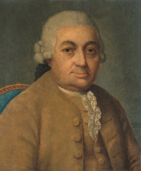 Depicted person: Carl Philipp Emanuel Bach